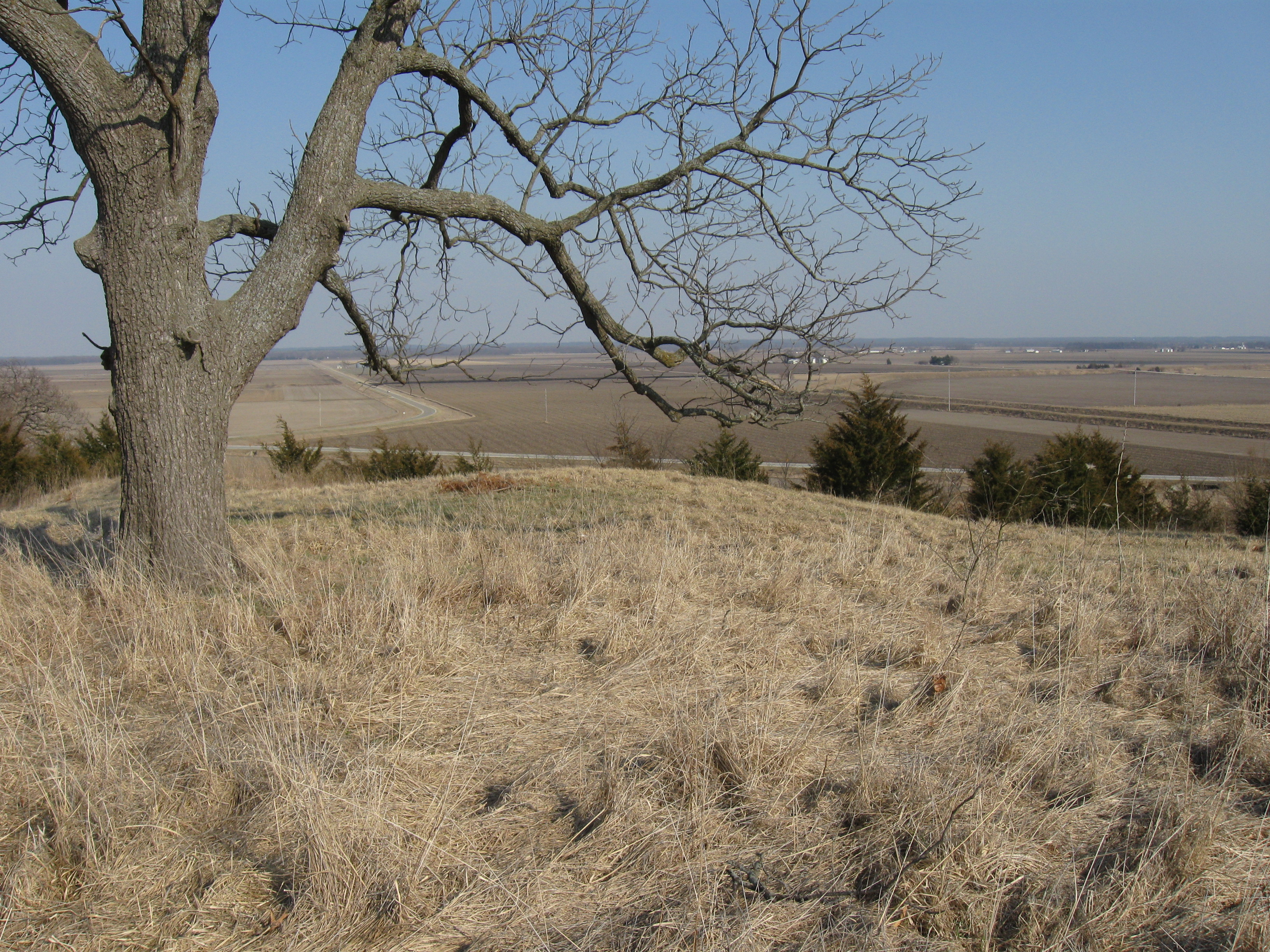 Missippi River Floodplain from bluffs north of Kingston.